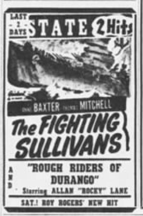 State Theater advertisement for the American war film The Fighting Sullivans (1944) and the western film Rough Riders of Durango (1951) - 26 Apr. 1951 Morning Call, Allentown PA